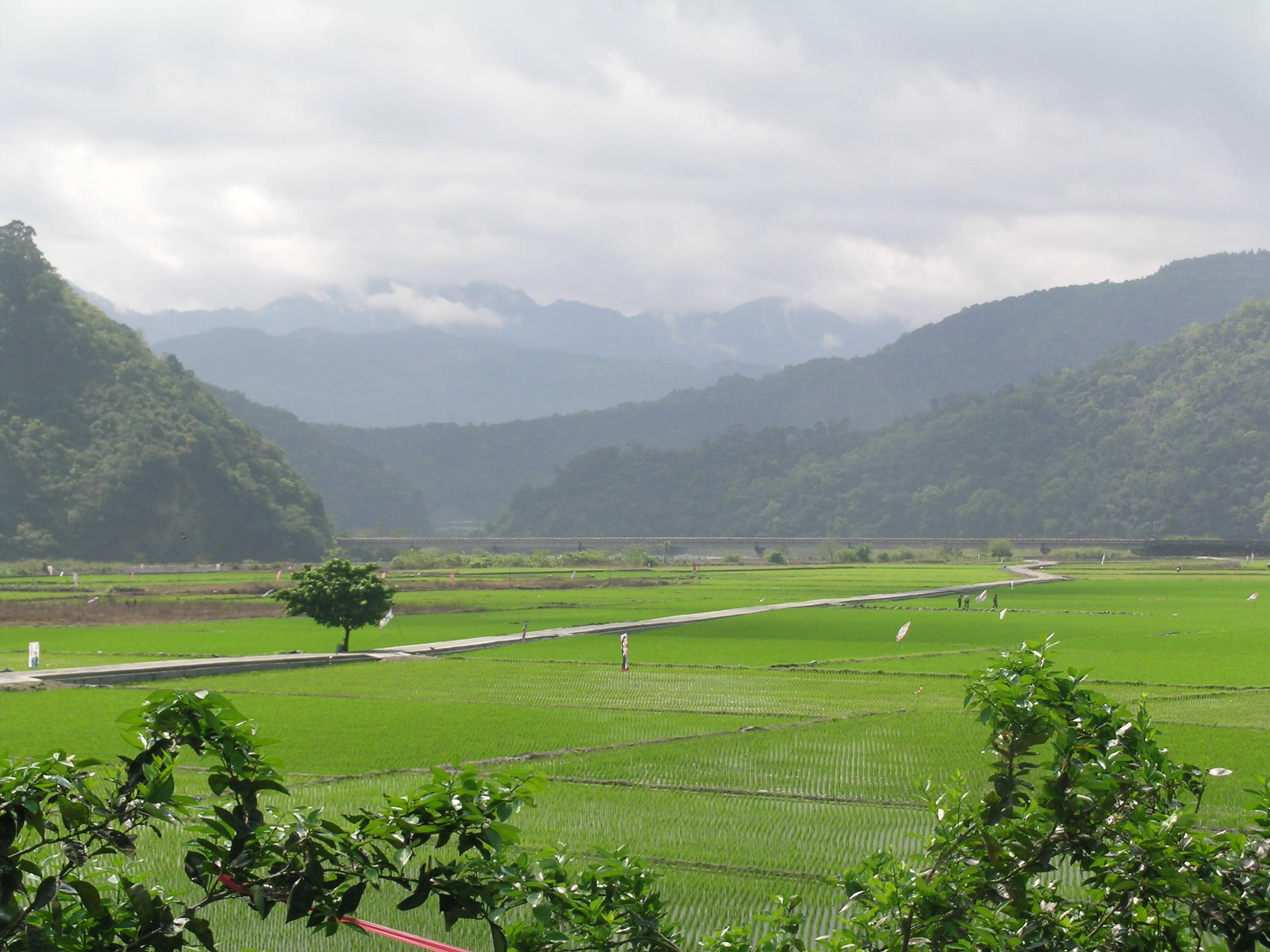 The view on the far side of the valley is the Zhuole Bridge of Provincial Highway No.30 in Taiwan.